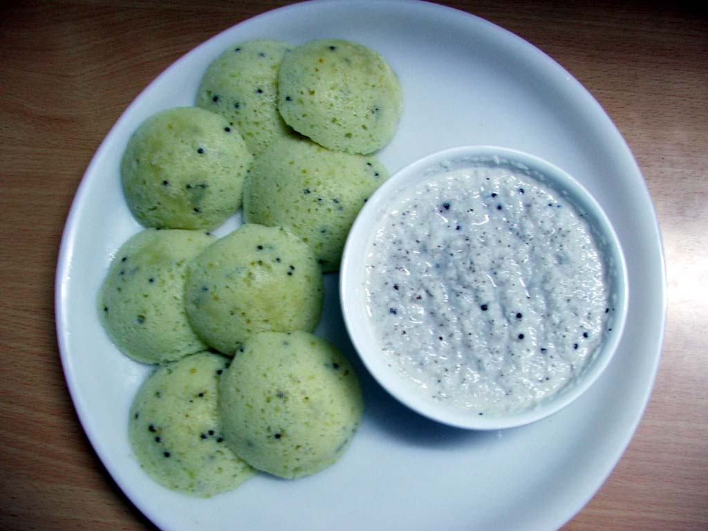 Idli with Coconut chutney